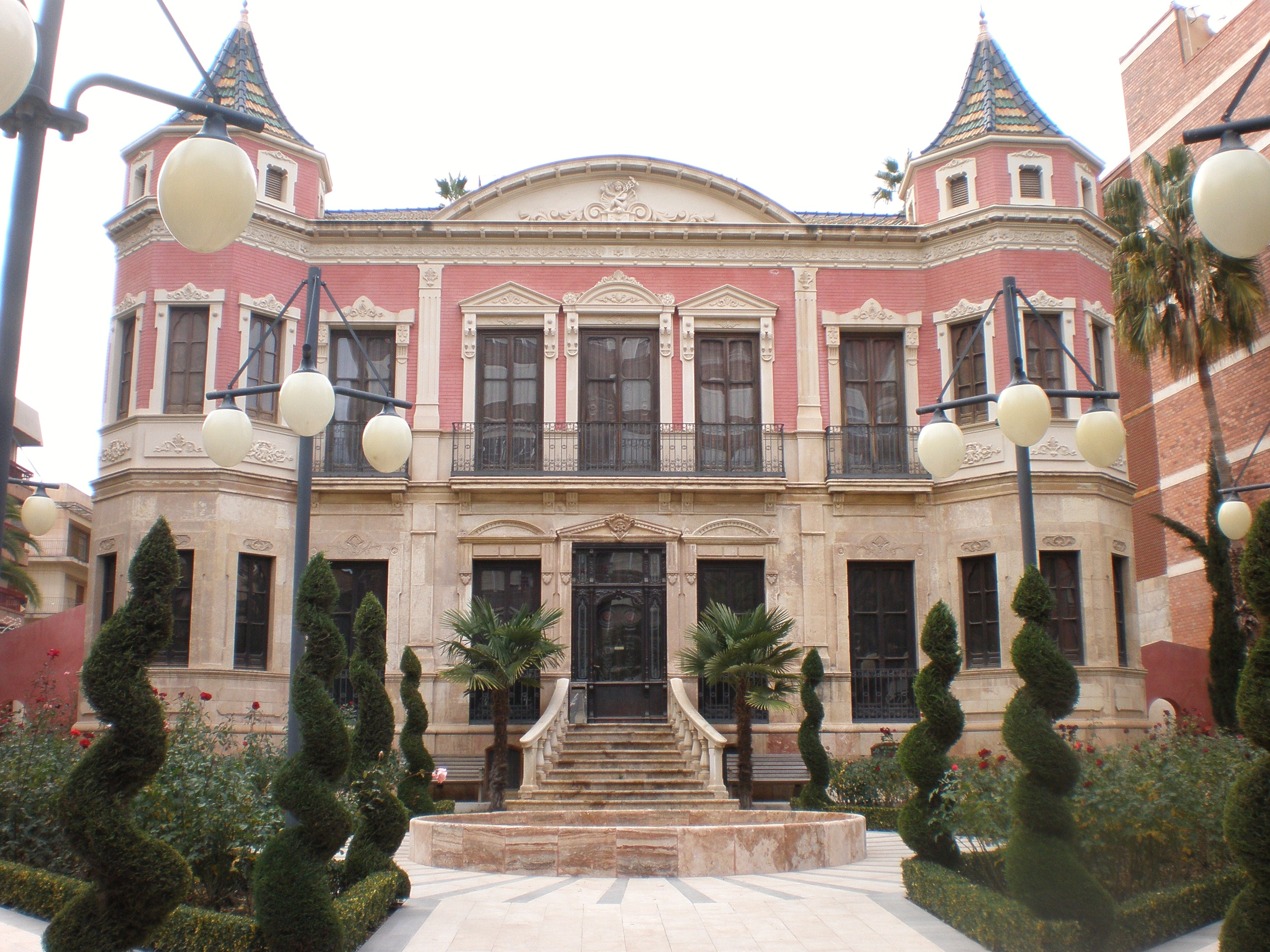 Huerto Ruano